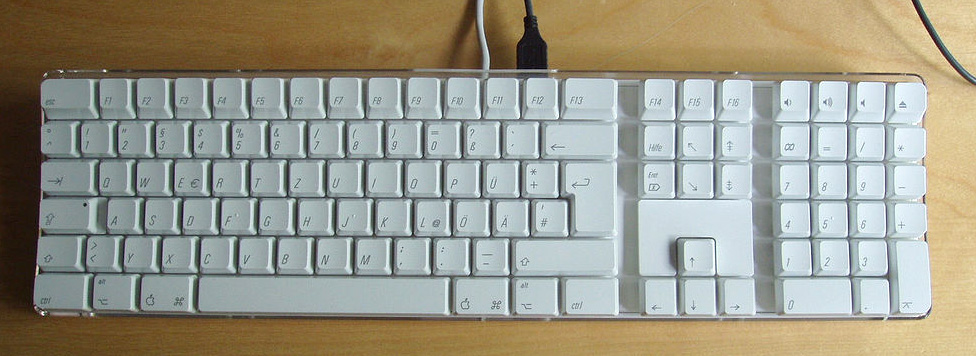 An Apple Pro Keyboard, "open top" version with the USB ports in the back.Apple Pro Keyboard